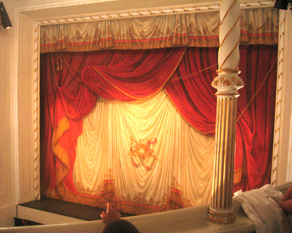 Neuburg an der Donau, Germany: Stadttheater (Municipal Theatre)